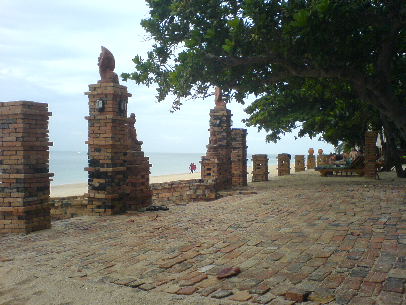 Koha Lanta, Long beatch